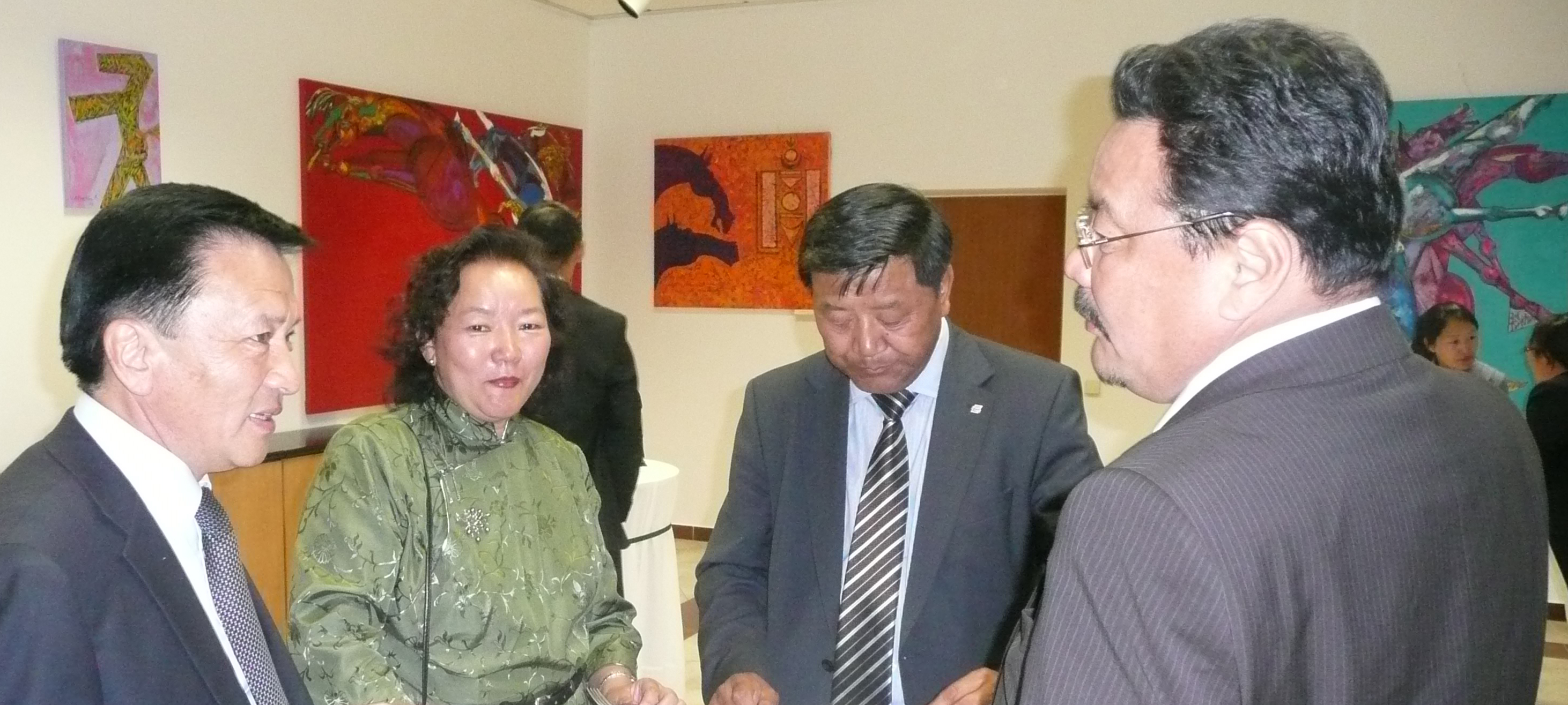 Chadraart - 'Horse composition' exhibition of Adiyabazar CHADRAABAL in the German Embassy in Ulan Bator